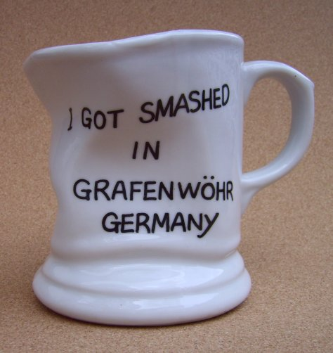 A coffee mug purchased in Grafenwöhr, Germany.